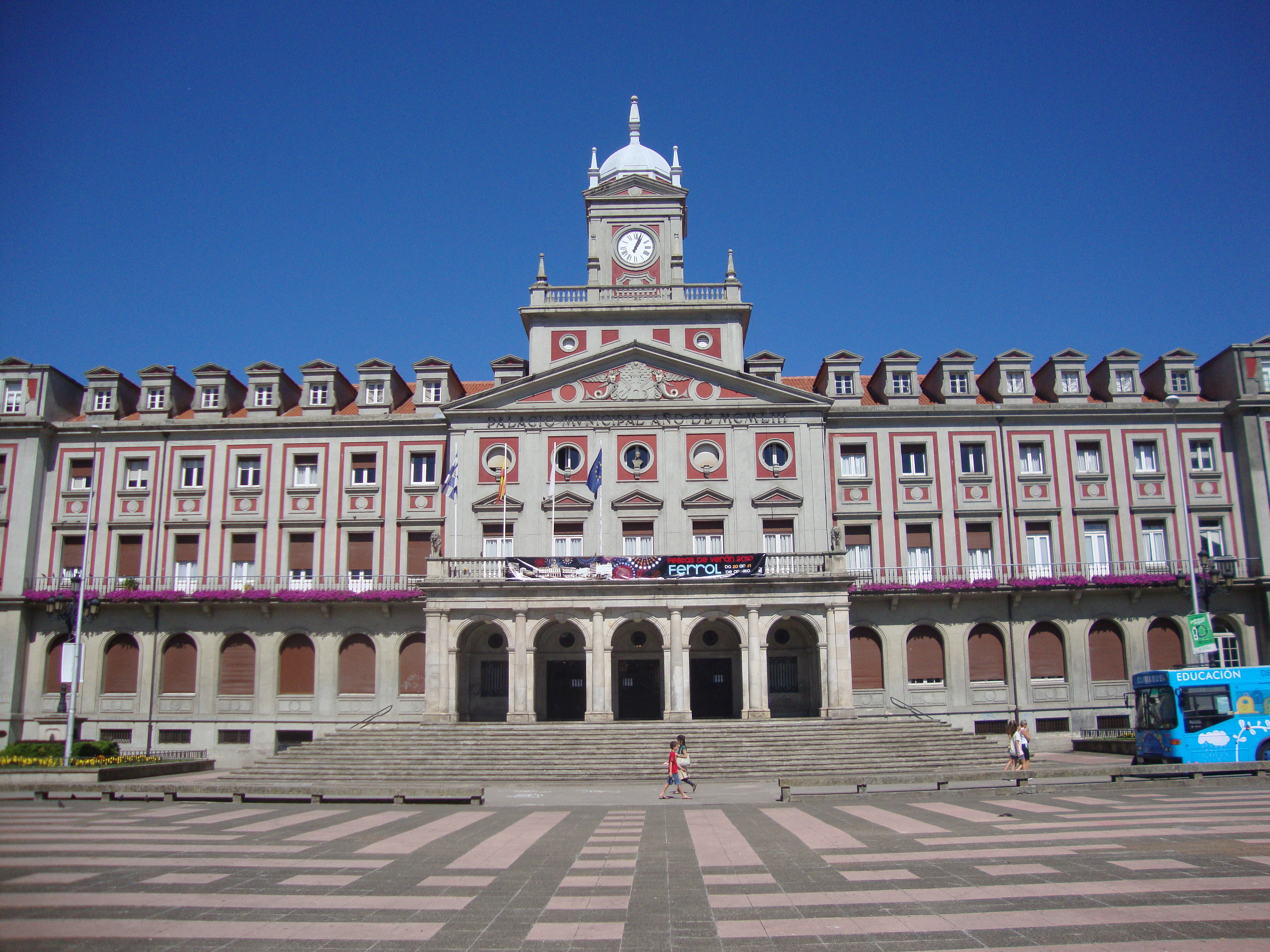 of Ferrol's town hall (Galicia, Spain)